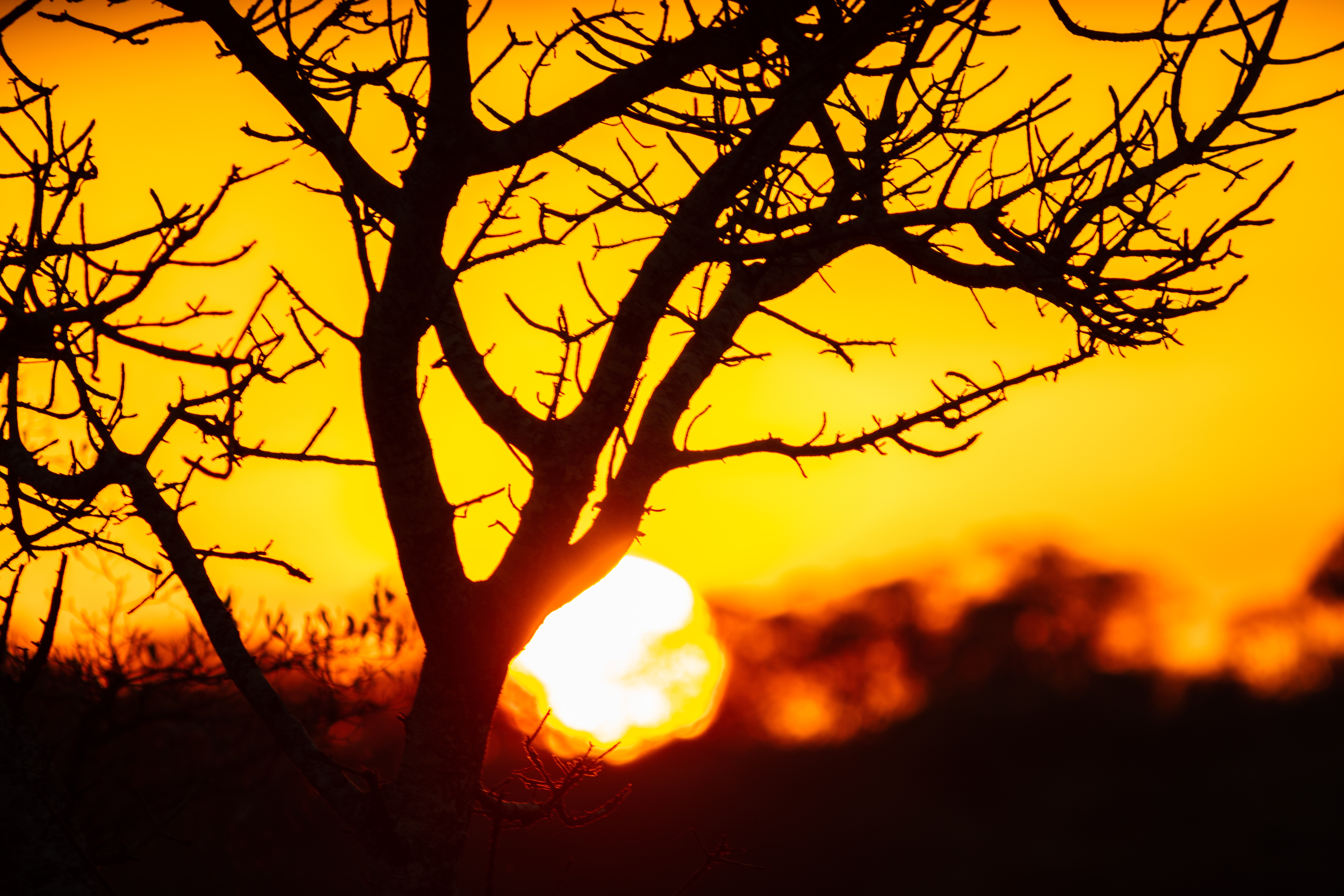 Sunset, Kruger National Park, South Africa